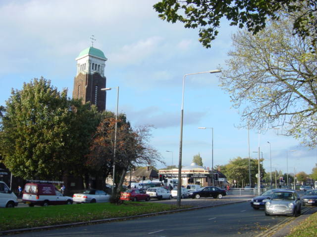 Junction of Queens Drive and Townsend Lane. The busy junction of Queens Drive(A5080) and Townsend Lane(A580)showing the lofty tower of St Matthew's church and opposite, a former bank, now an undertakers.